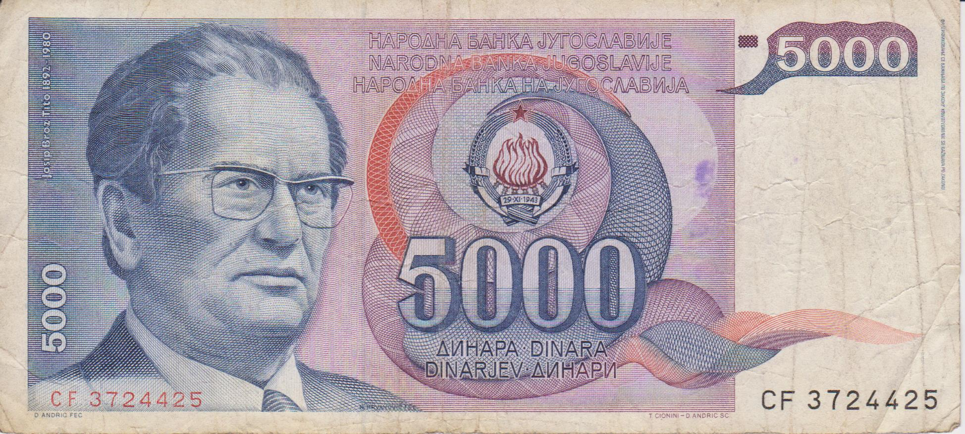 5000 Yugoslav dinar 1985